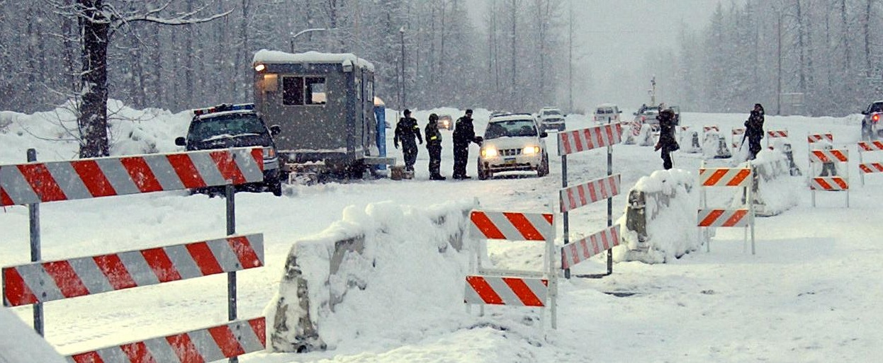 Protecting Alaska’s people and infrastructure. As the year ended, Alaska and the nation went to Orange Alert. Members of the State Defense Force, Alaska National Guard, and Alaska State Troopers operated Check-point-One in Valdez and other locations during Operation Winter Talon